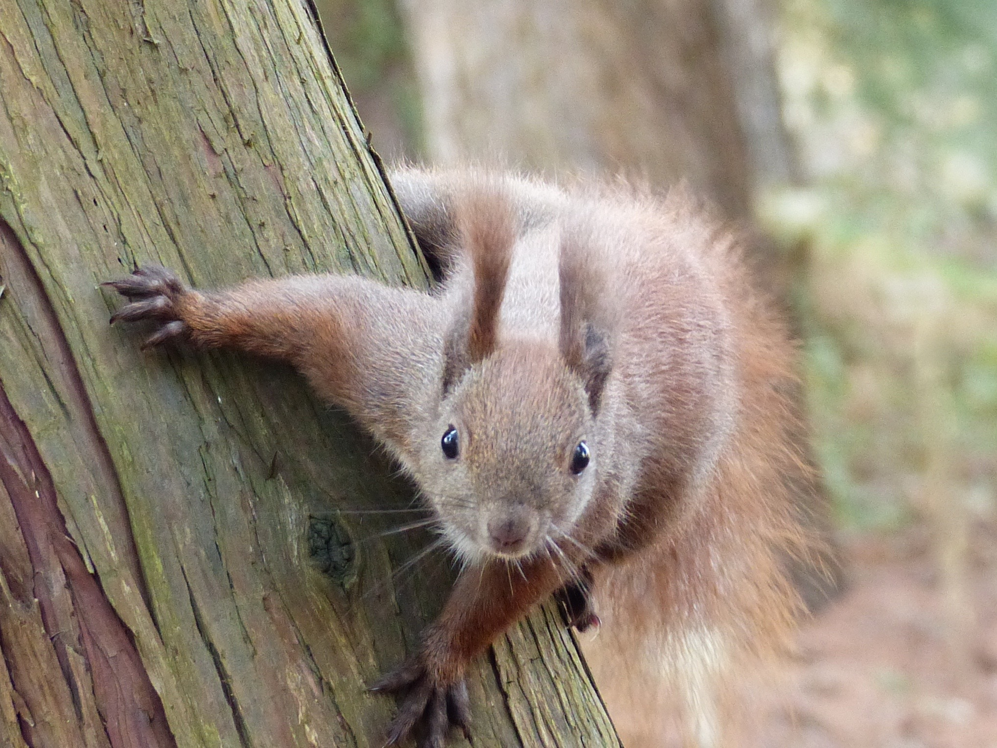 Red squirrel on tree trunk, Botanical Garden, Berlin